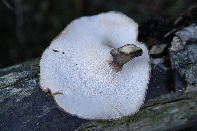 Polyporus badius from Commanster, Belgium. The determination of the species shown in this picture has been verified.